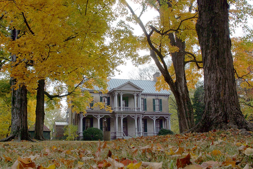 Photo of the Historic Farm House located on the property of the Nashville Zoo